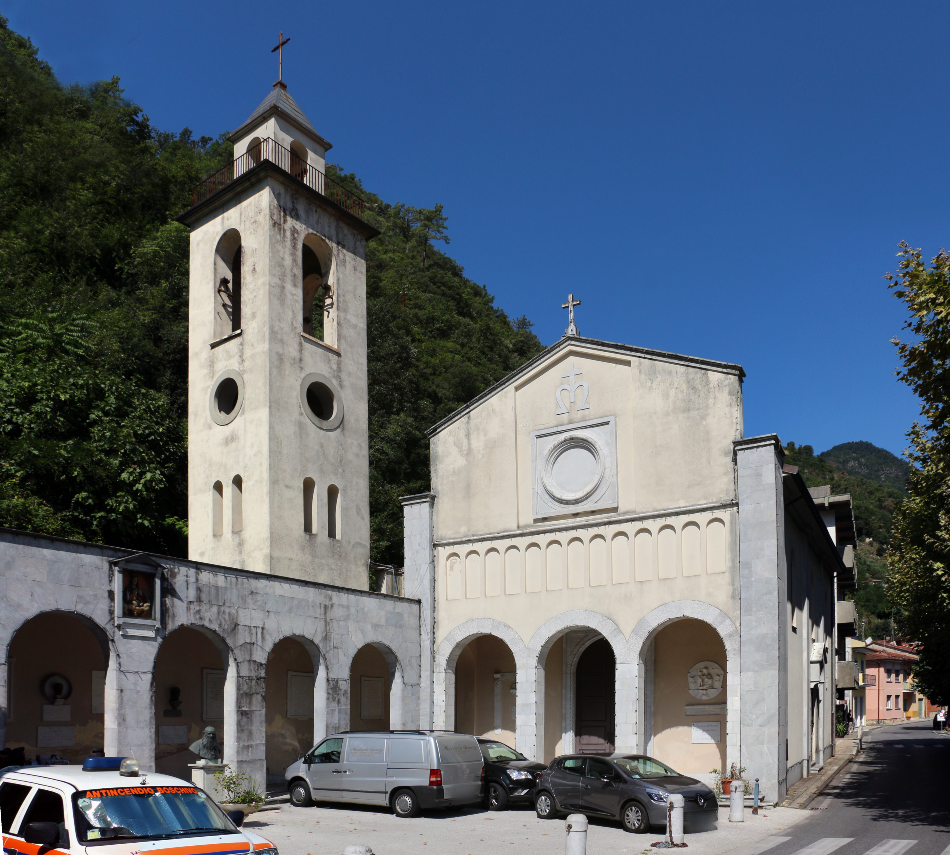 Santissima Annunziata (Seravezza)